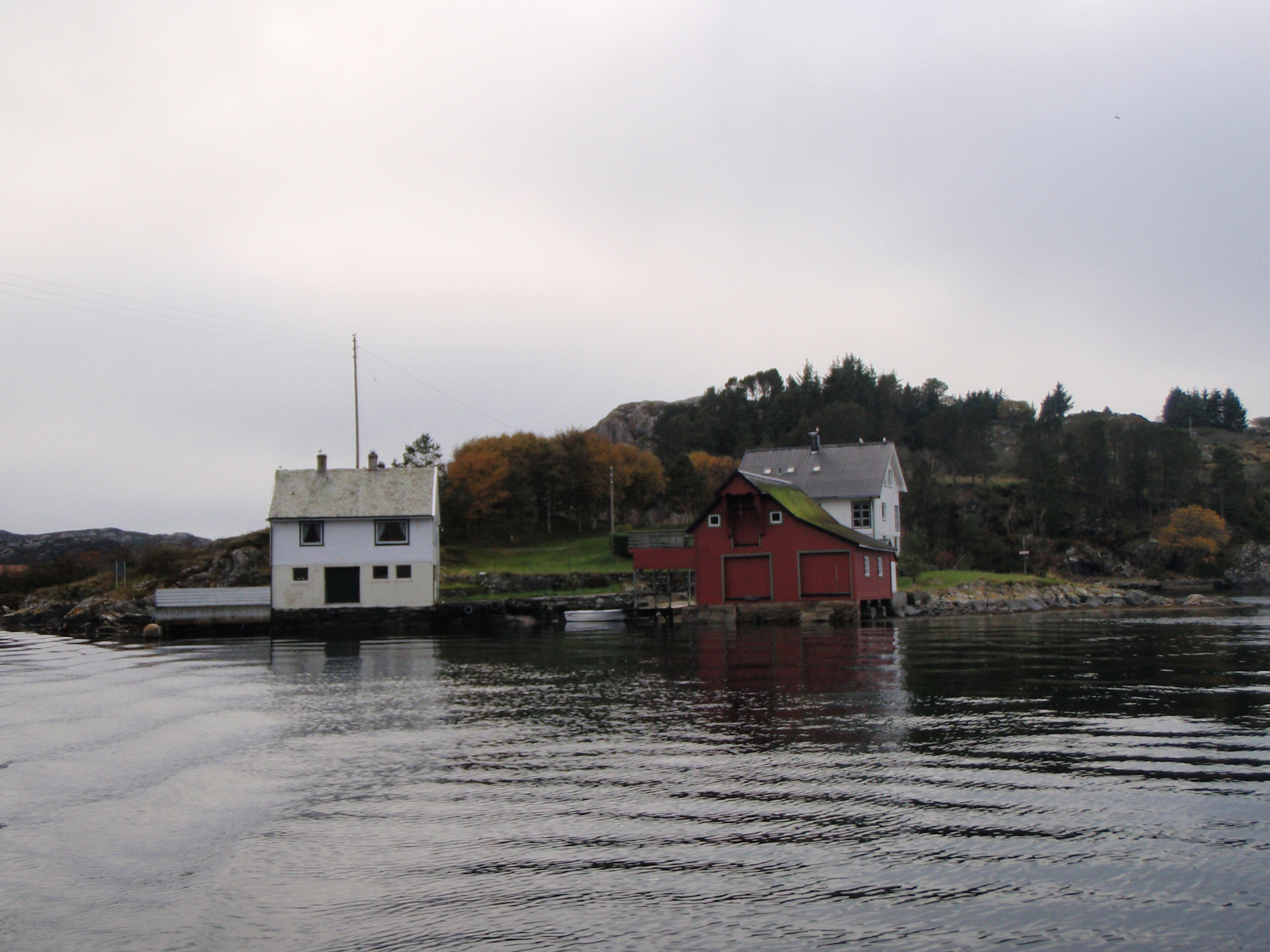 Stekholmen i Telavåg